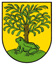 Coat of arms of Gerbach